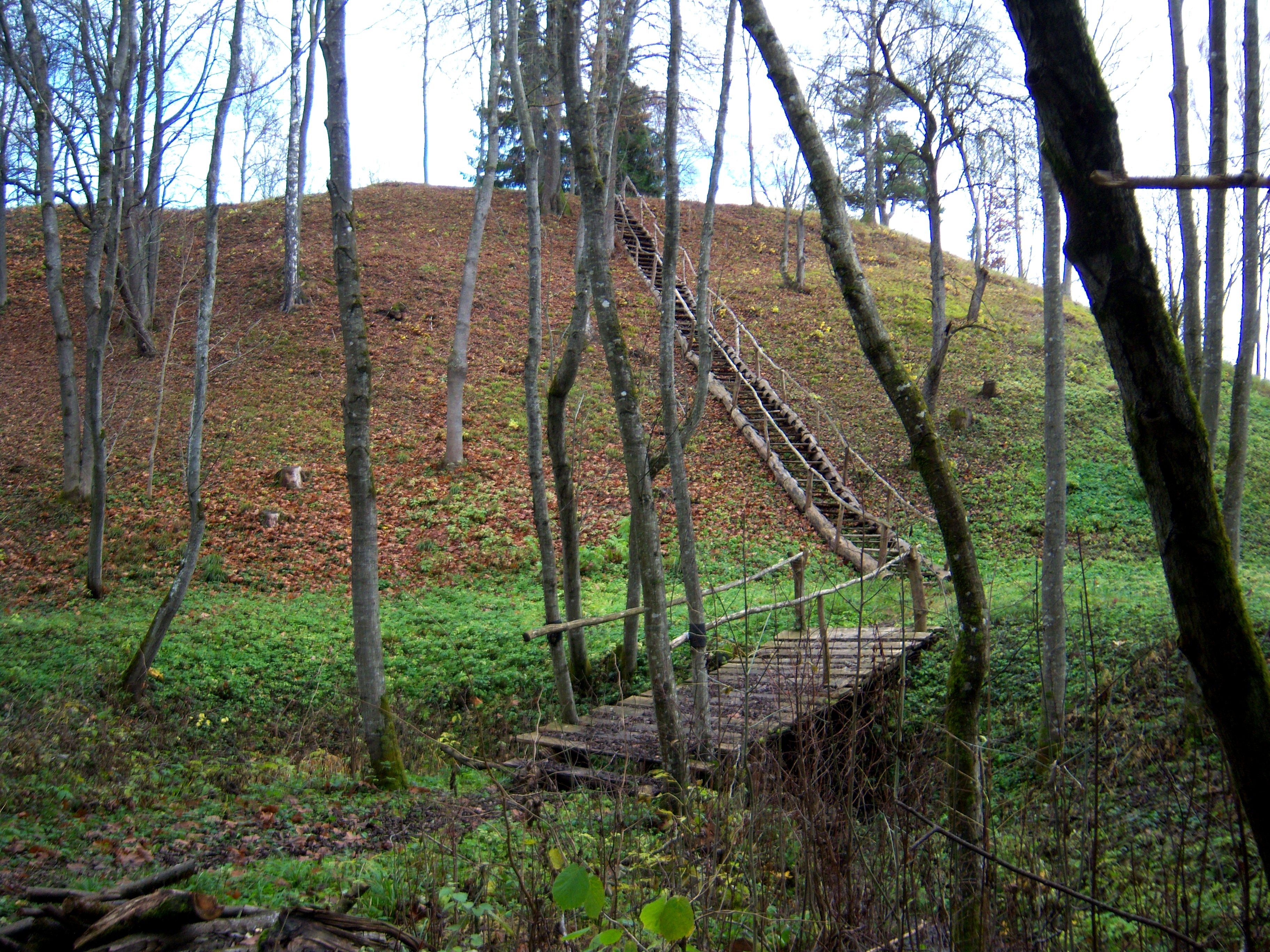 Hillfort by Stirniškiai, Kupiškis District, Lithuania